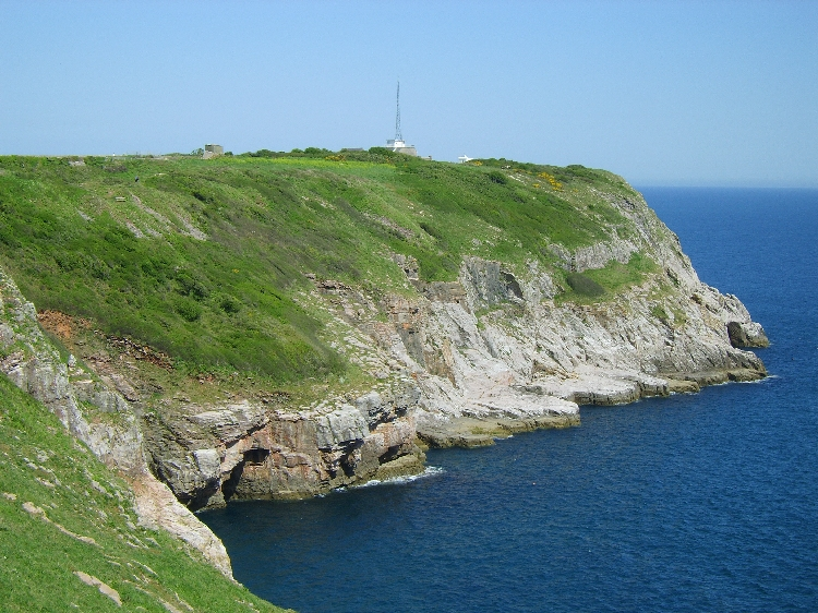 Berry Head and the Northern Fort in Torbay, England. Taken from the Southern Fort in May 2006.